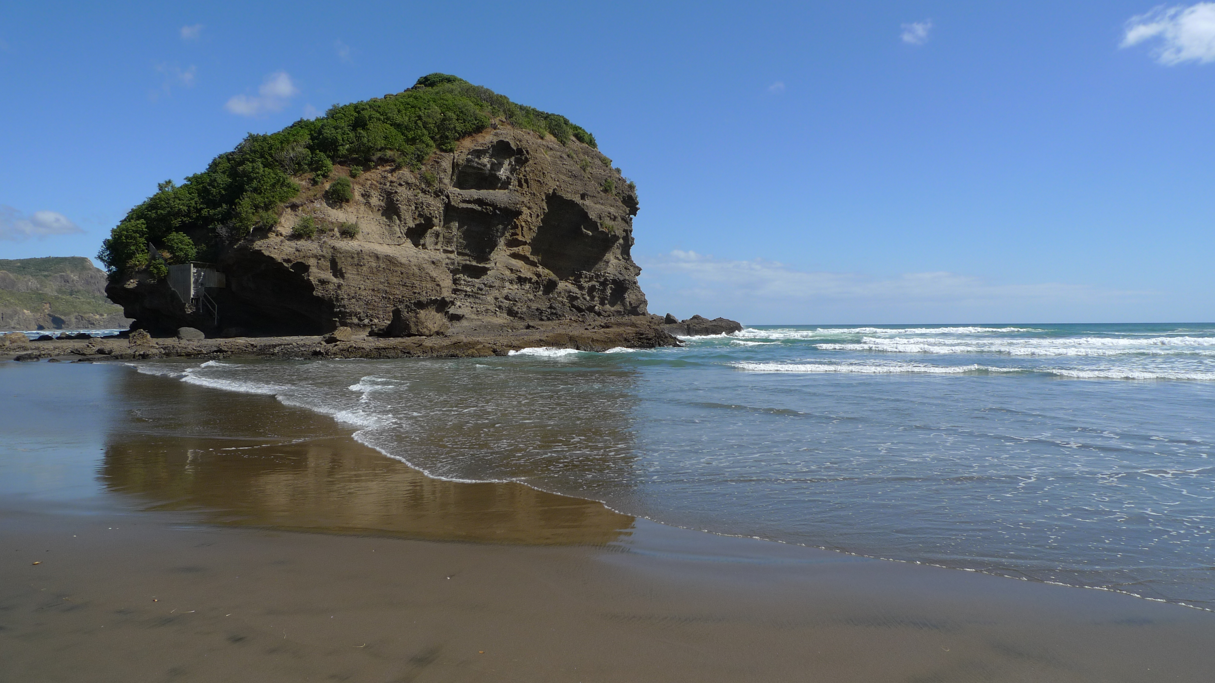 305 Bethells Rd, Muriwai 0781, New Zealand